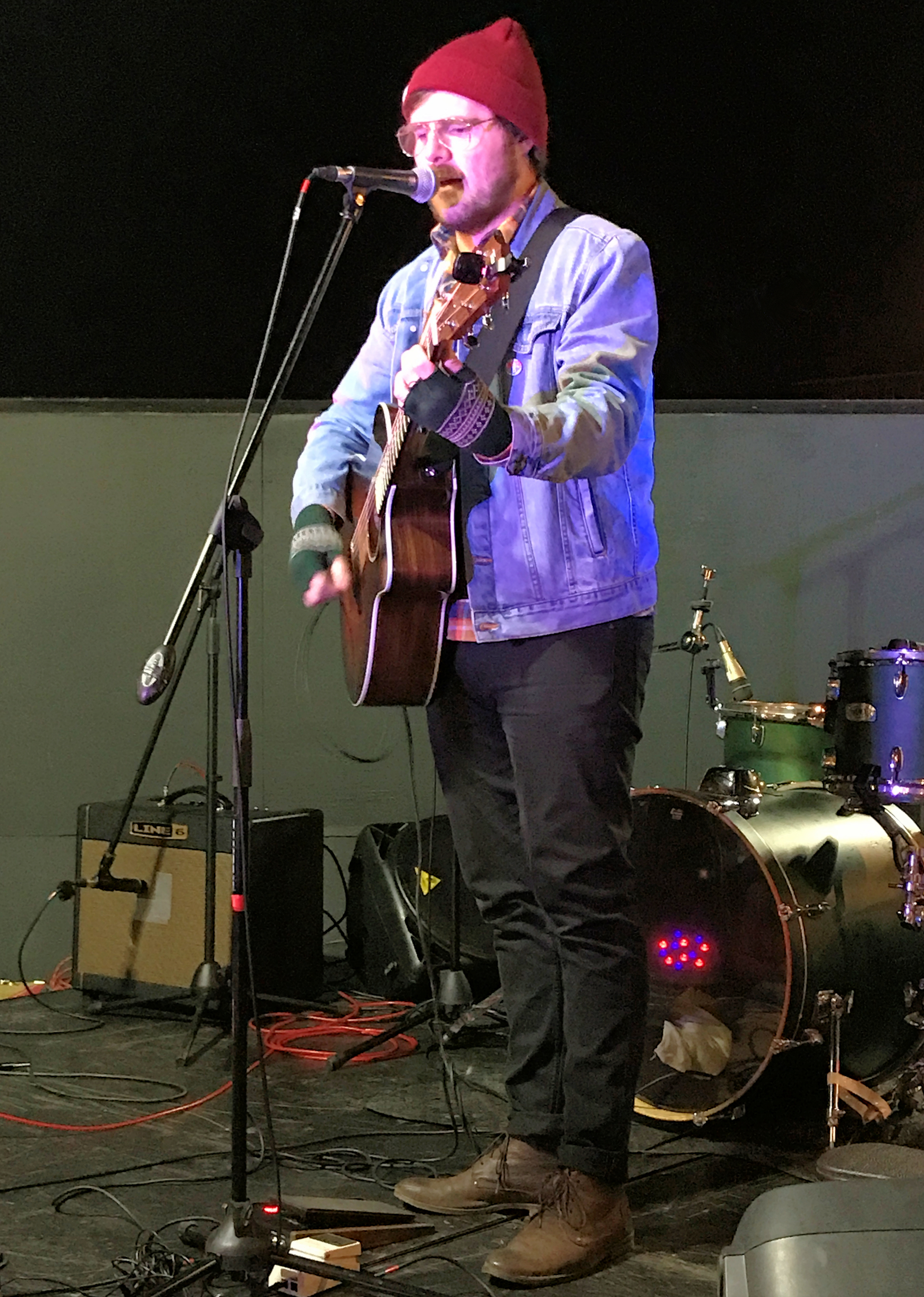 Bouwer Bosch performs in Centurion, June 2017